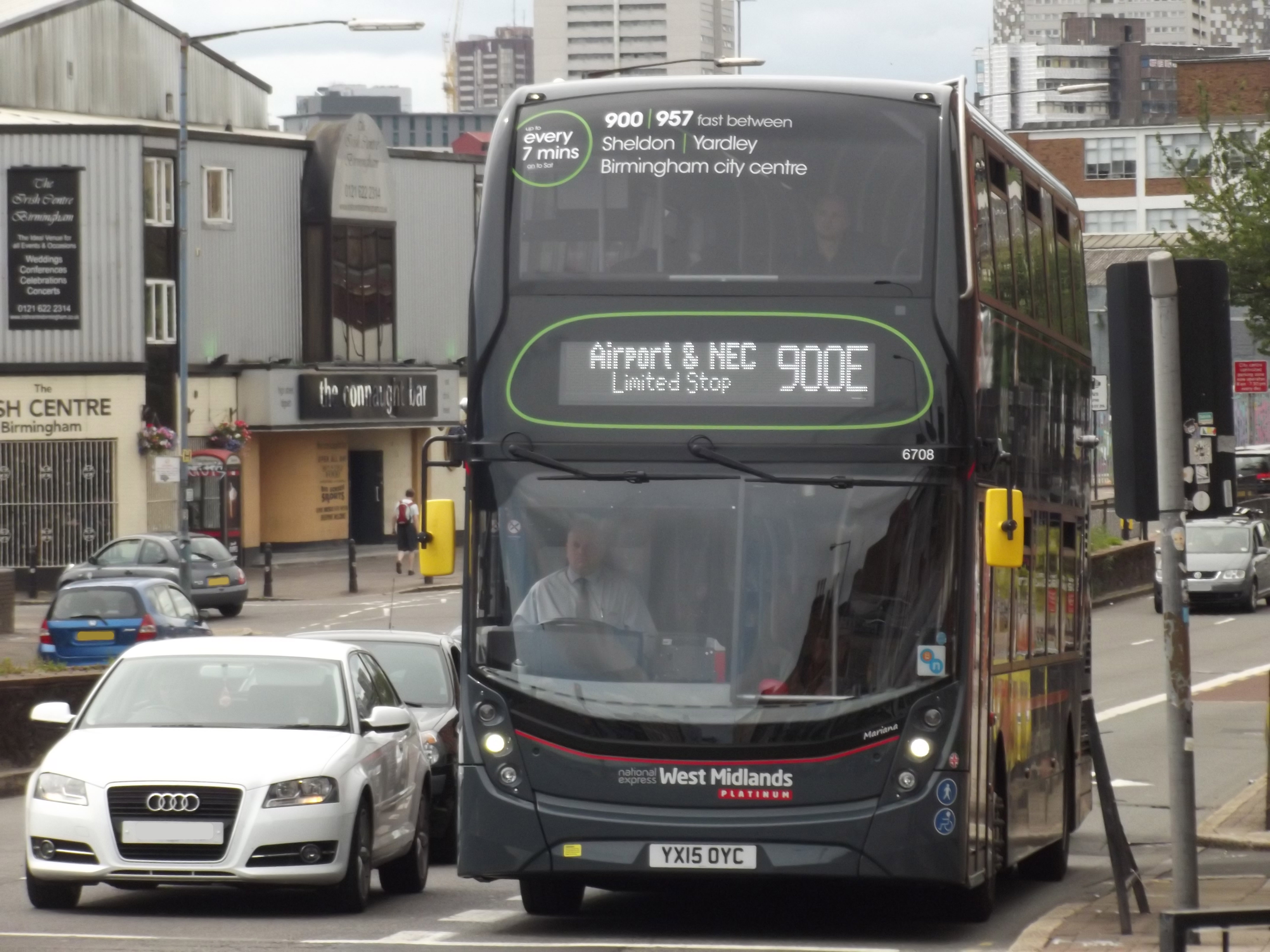 A 900E bus to the Airport & NEC is seen at the lights in Digbeth on High Street Deritend. Opposite The Irish Centre and near the Custard Factory. YX15 OYC 6708 - Mariana